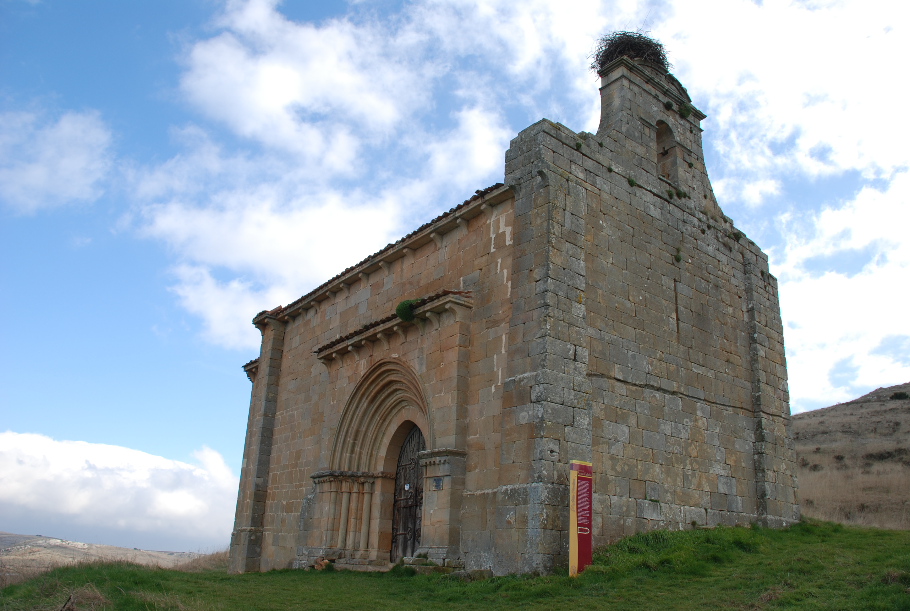 Chapel of Santa Eulalia in the Barrio de Santa María of Aguilar de Campoo (Palencia, Castile and León). Old Parish Church of the medieval outback of the same name that the building is dedicated. It was declared A historic-artistic monument in 1966. It is one of the jewels of the Romanesque in province of Palencia. Whole, harmonic and small shapes and defines the Romanesque palentine North mountain. Its plant consists of a single nave closed in semicircular apse. Its cover closes to the North, not usual in these buildings since the coldest wind coming from that direction.